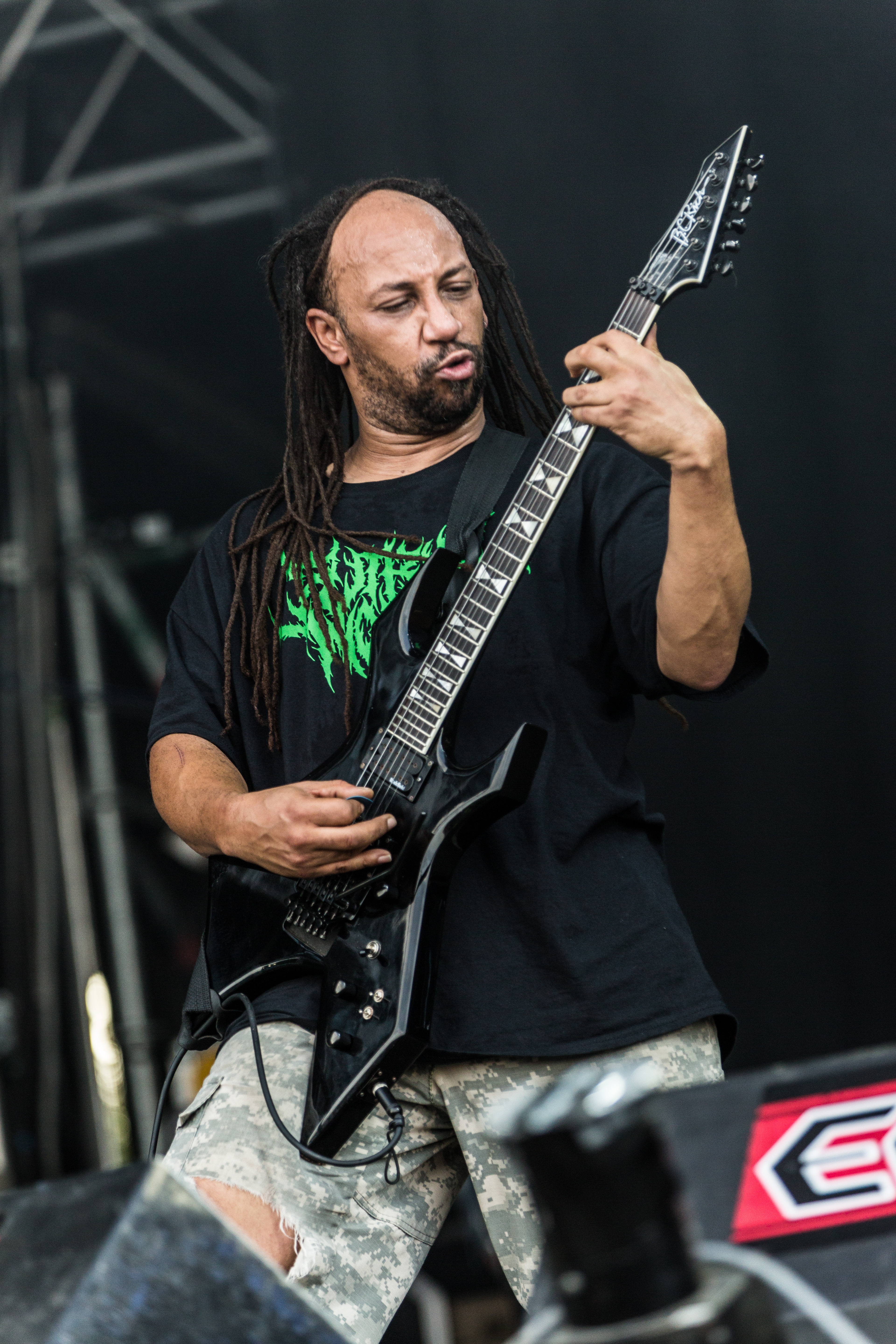 The American death metal band Suffocation at the Summer Breeze Open Air 2017 in Dinkelsbühl/Germany.